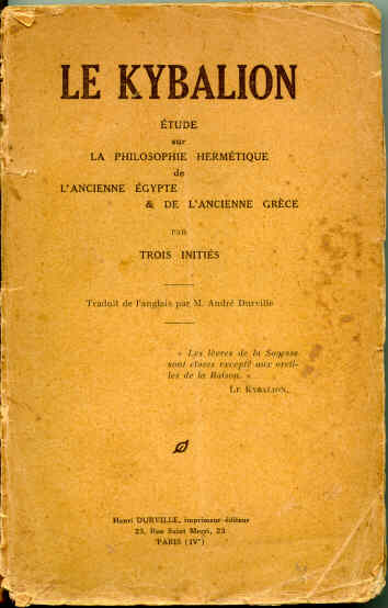 The French version of the cover of the book Kybalion by anonymous authors.